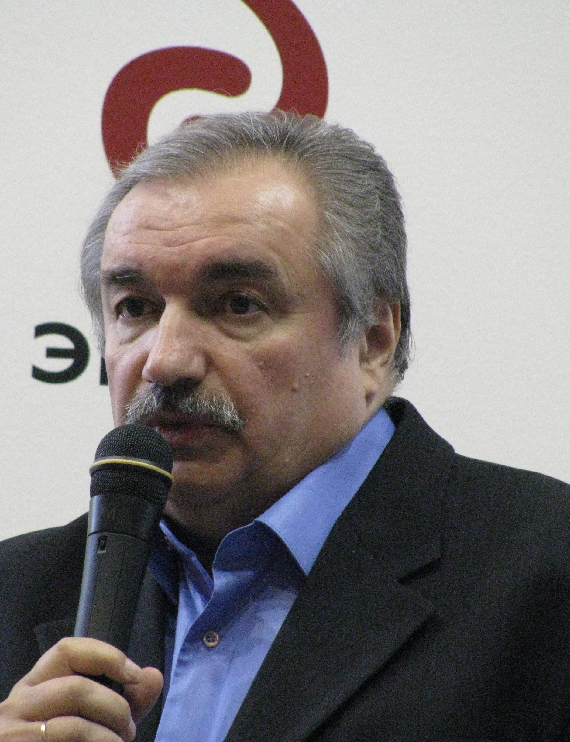 Serhiy Dyachenko at MIBF 2011